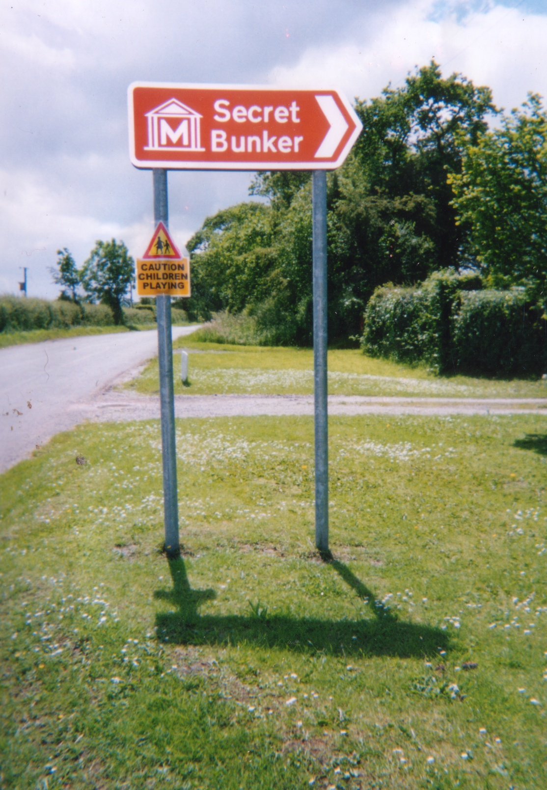 Image of the sign showing directions to the Hack Green Secret Nuclear Bunker